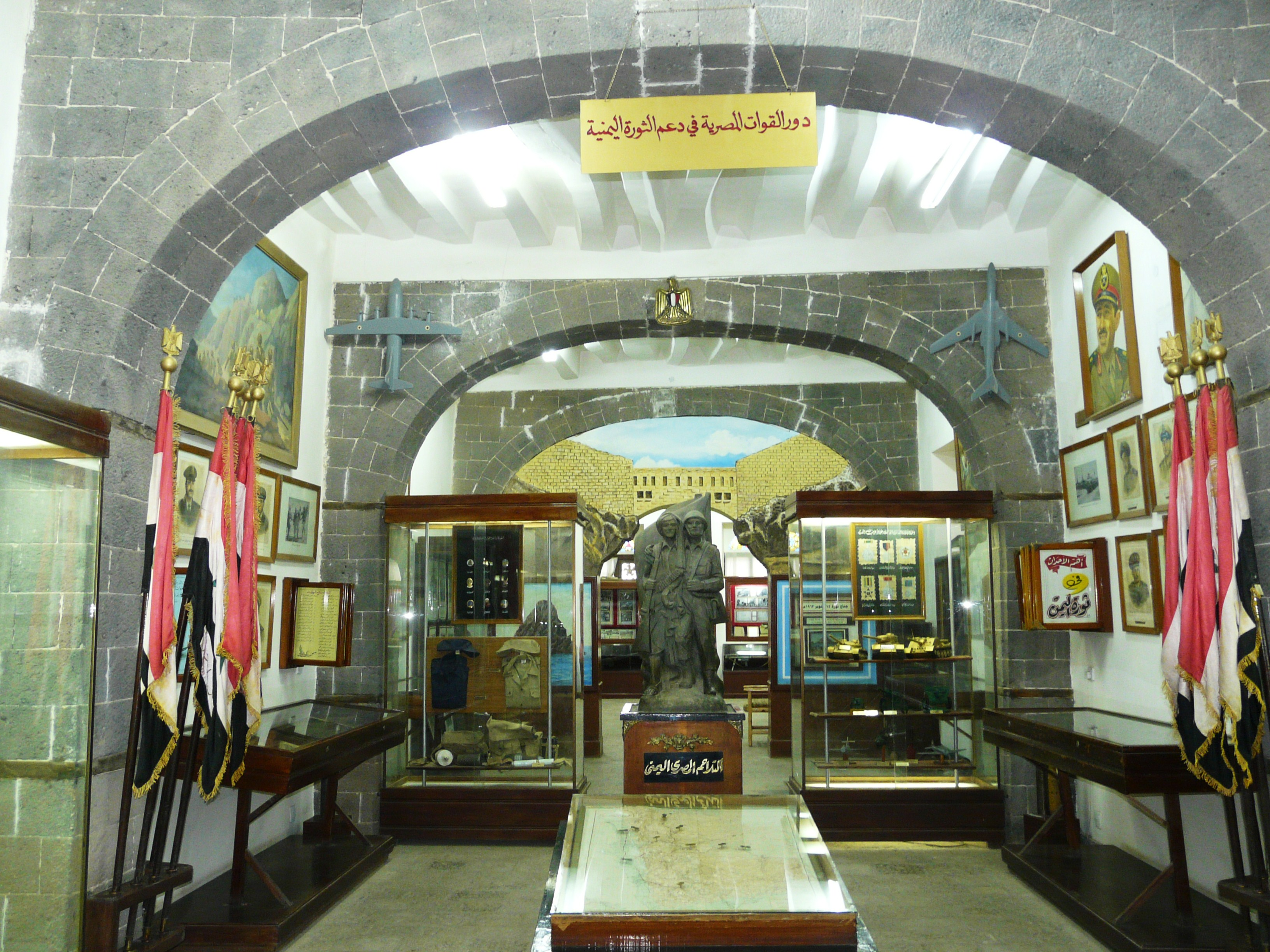 Some Yemeni antiques in the military museum of Yemen (in Sana'a).